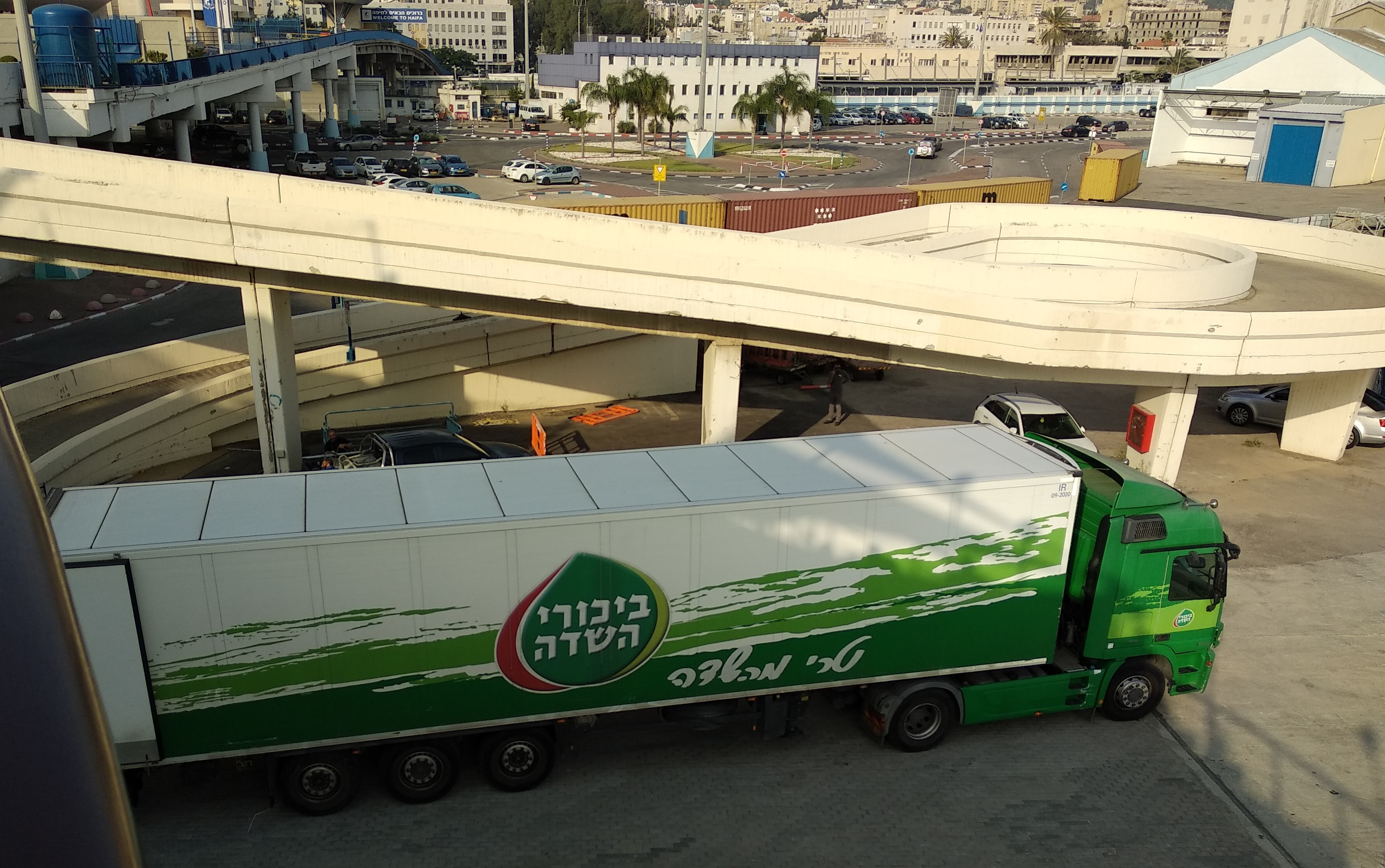 Bikurey Hasade truck at Haifa Port